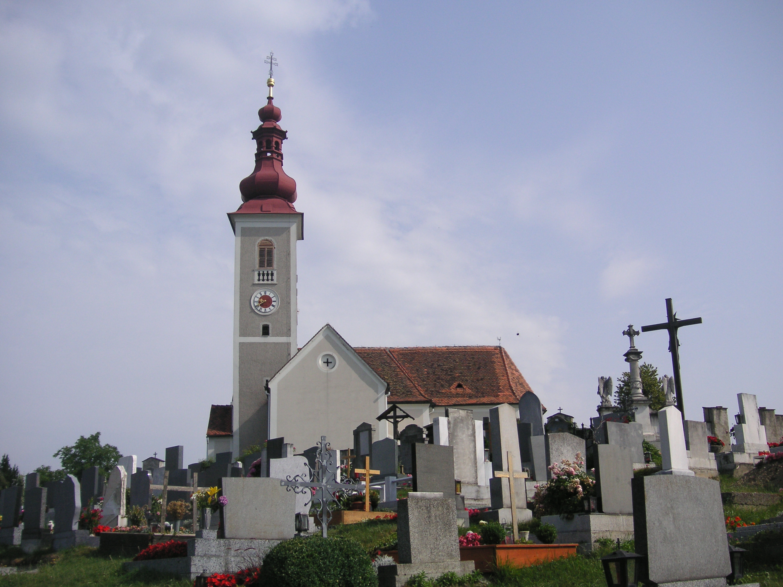 The church of St. Oswald bei Plankenwarth. View from the cemetry to the north.